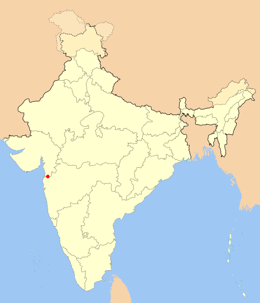 locator map of Dadra and Nagar Haveli (union territory of India); self-made using Image:India-locator-map-blank.svg Lagekarte von Dadra und Nagar Haveli (indisches Unionsterritorium); selbst erstellt auf der Grundlage von Image:India-locator-map-blank.svg